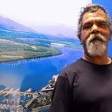 Vincent Mundraby in Cairns, Queensland .. taken in 2016 with poster view of the Trinity Inlet side of his own Mandingalbay Yidinji country over and behind his right shoulder ,, died June 2017